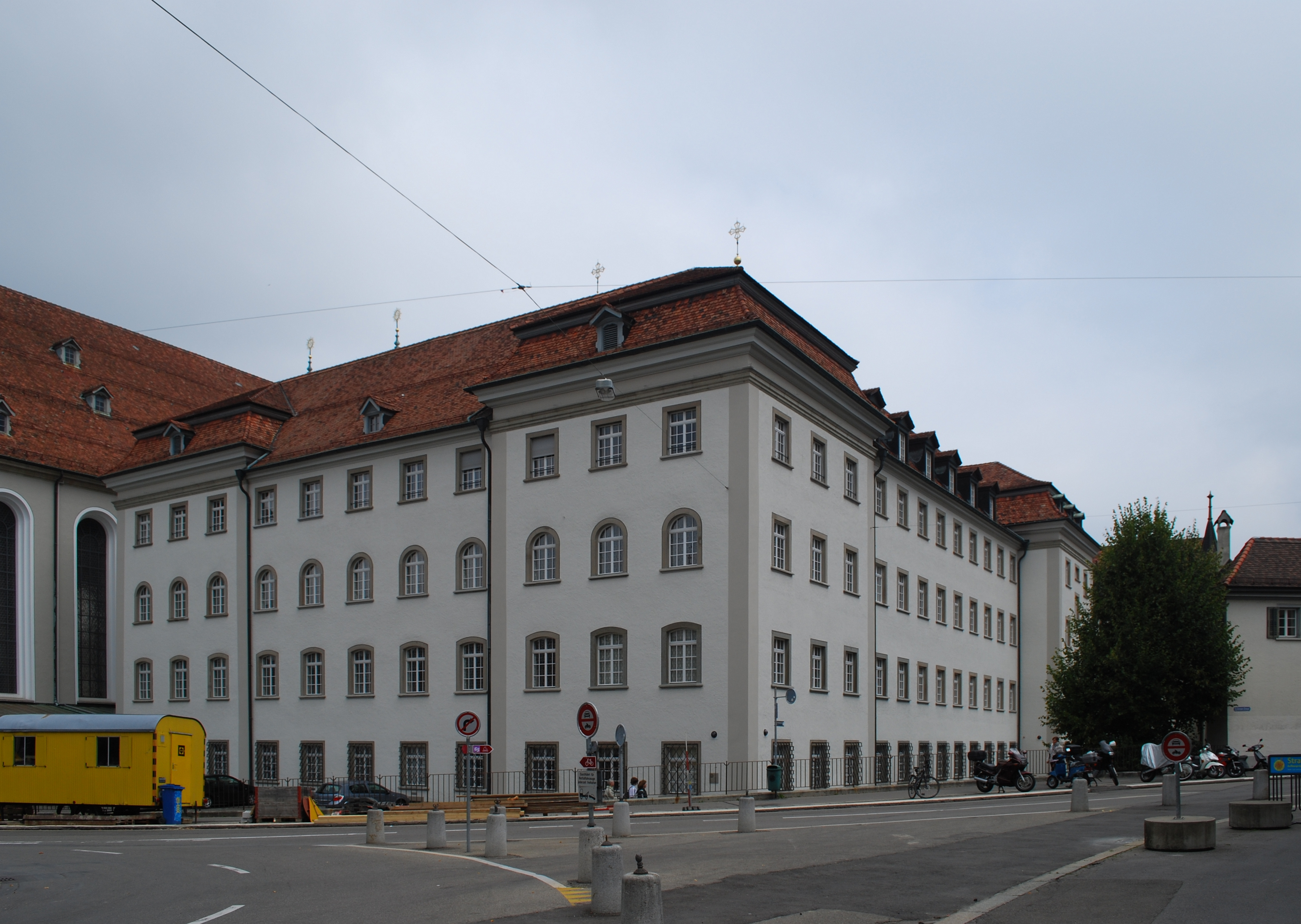 The building with the Abbey Library of Saint Gall from outside. The building is also home of one of the oldest schools in europe.